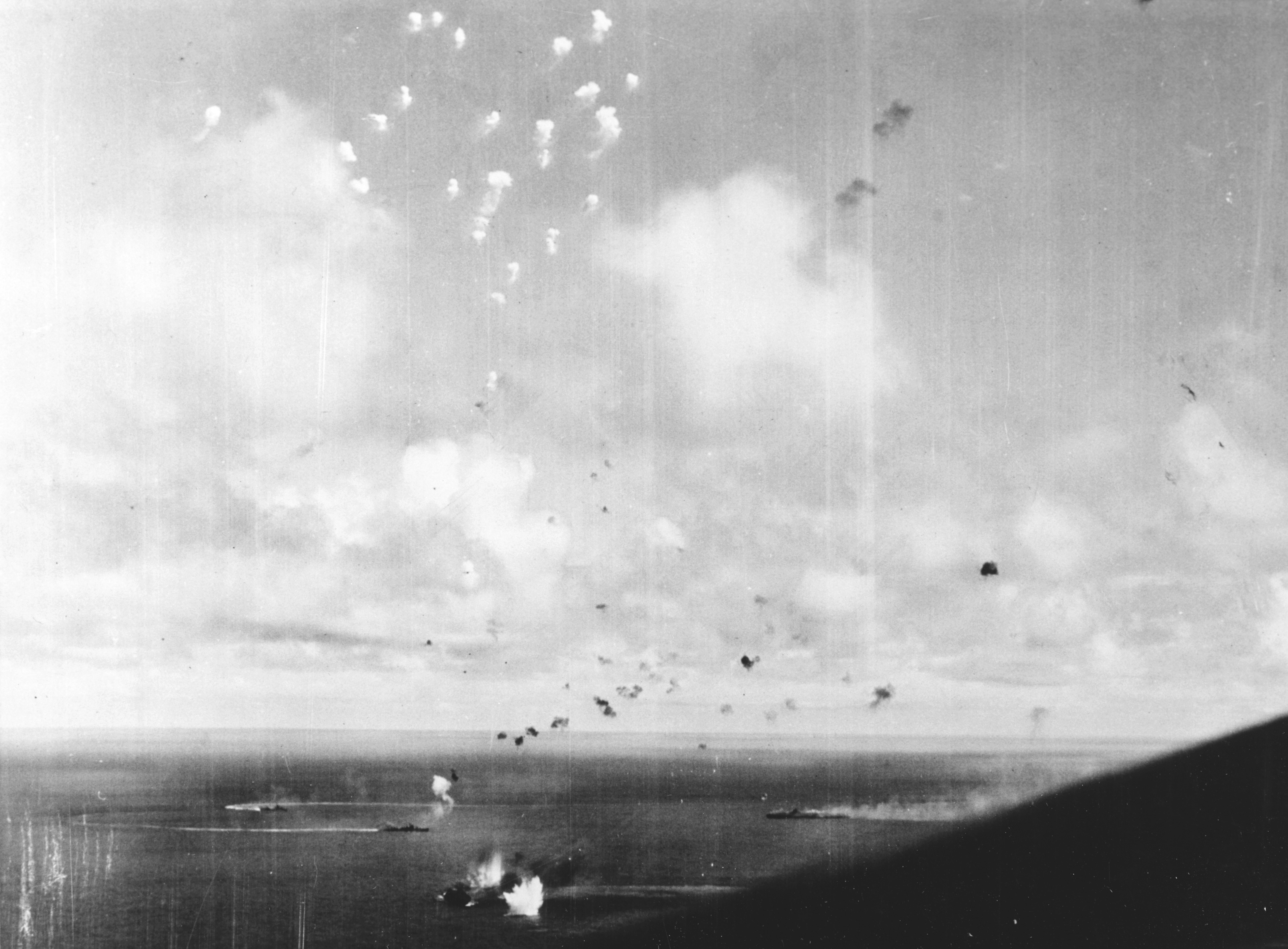 Japanese warships maneuvering under attack by U.S. Navy carrier aircraft, during the afternoon of 25 October 1944, during the Battle off Cape Engaño. Bombs are falling near the light carrier Zuiho, in lower left center. The large carrier Zuikaku is burning and apparently dead in the water in the right center distance. Nearest of the two ships at left, beyond Zuiho, is an Akizuki-class destroyer. Note the anti-aircraft shell bursts overhead.